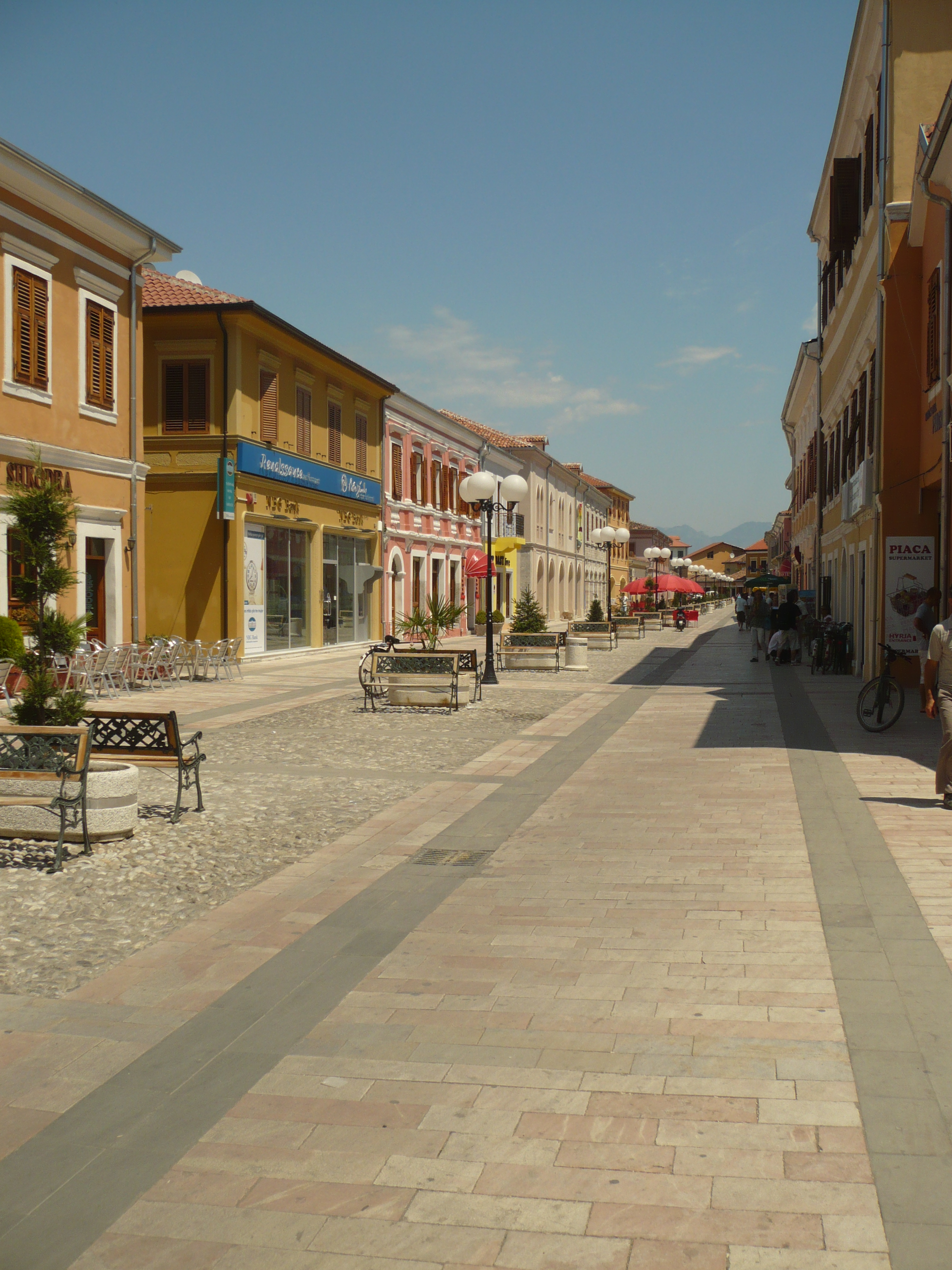 View of pedestrian Rruga Kolë Idromeno in Shkodër, Albania